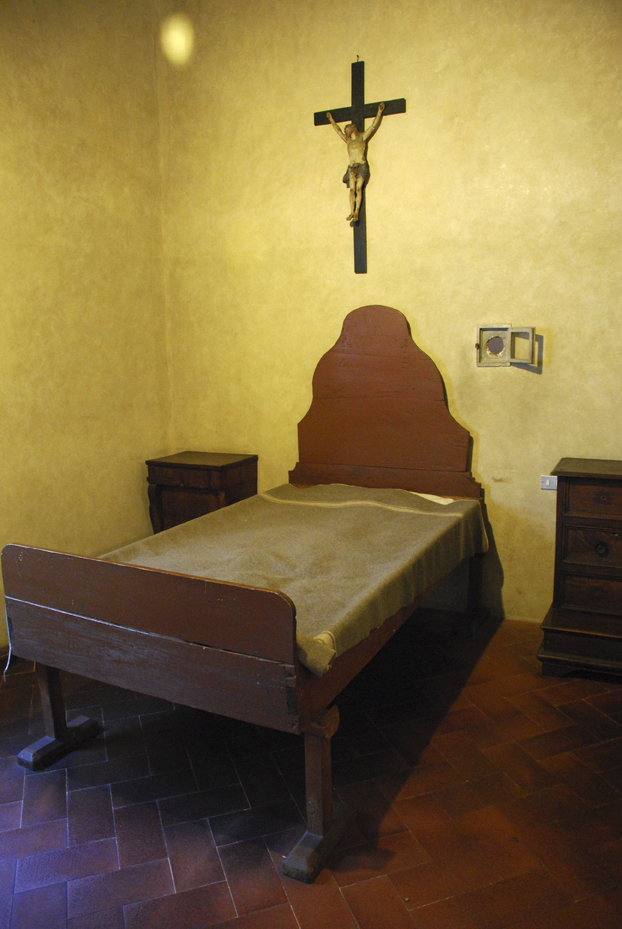 Certosa del Galluzzo, Florence, Italy. Monk's cell: bed.